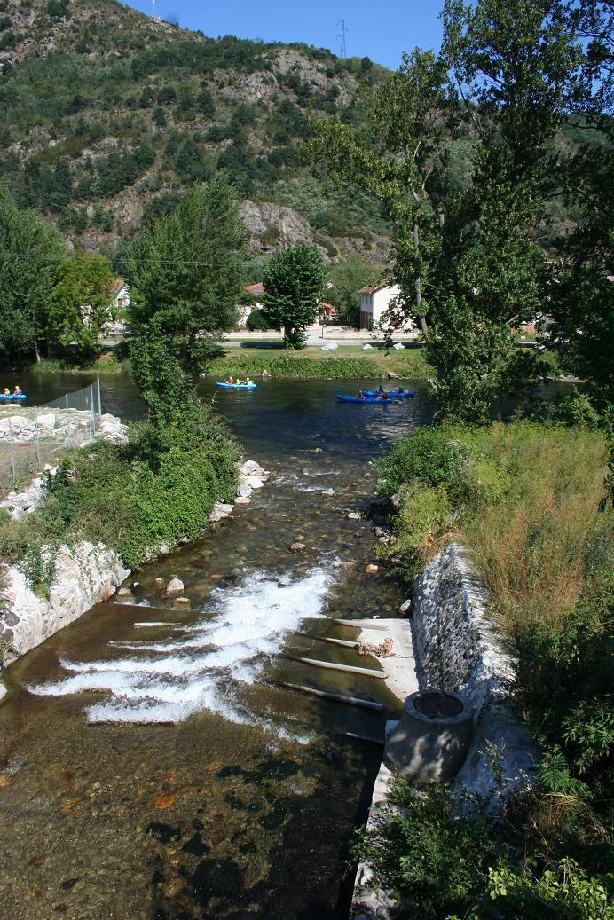 Courbiere river ends in Ariege